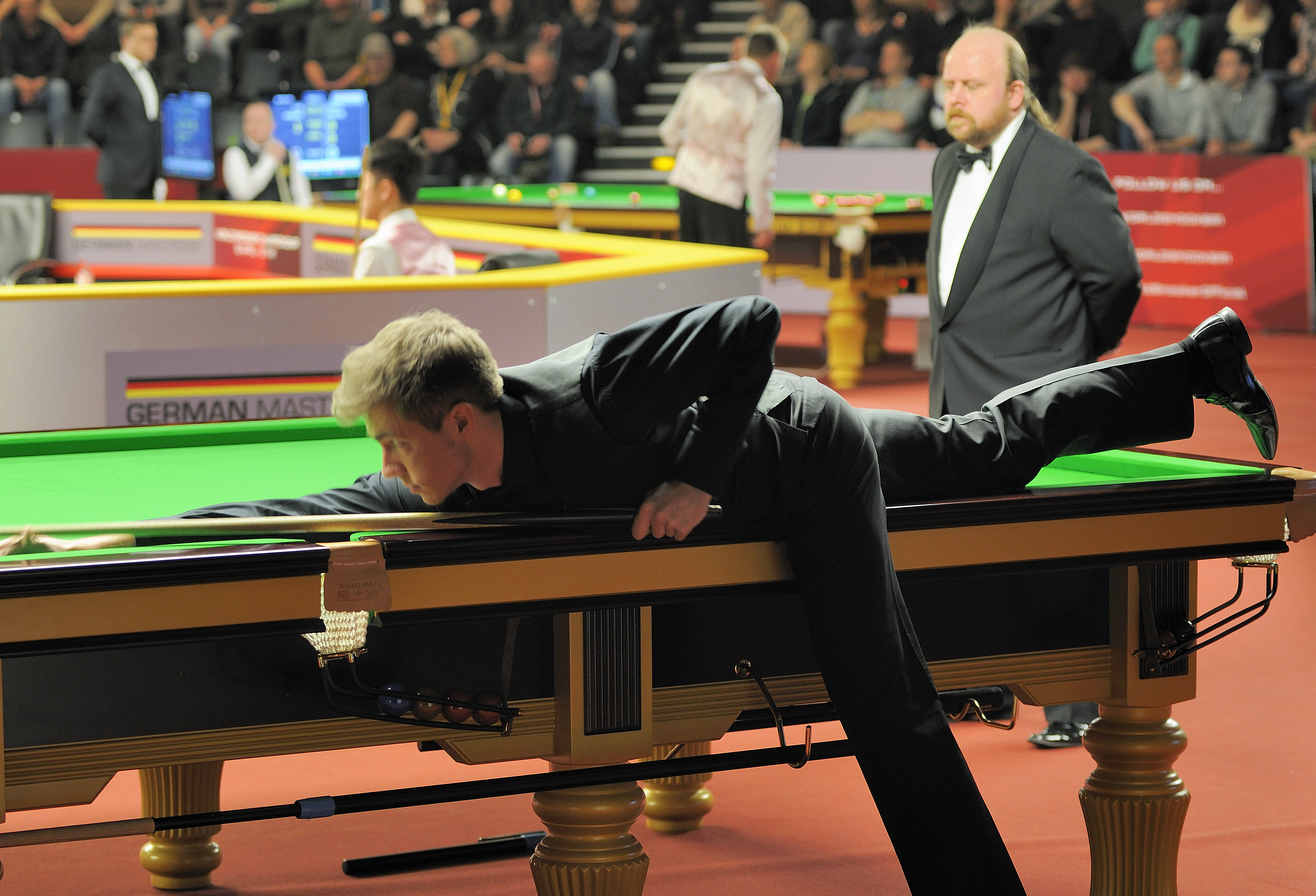 Picture taken in Berlin during the Snooker German Masters in 2014. Jack Lisowski, Nico de Vos.